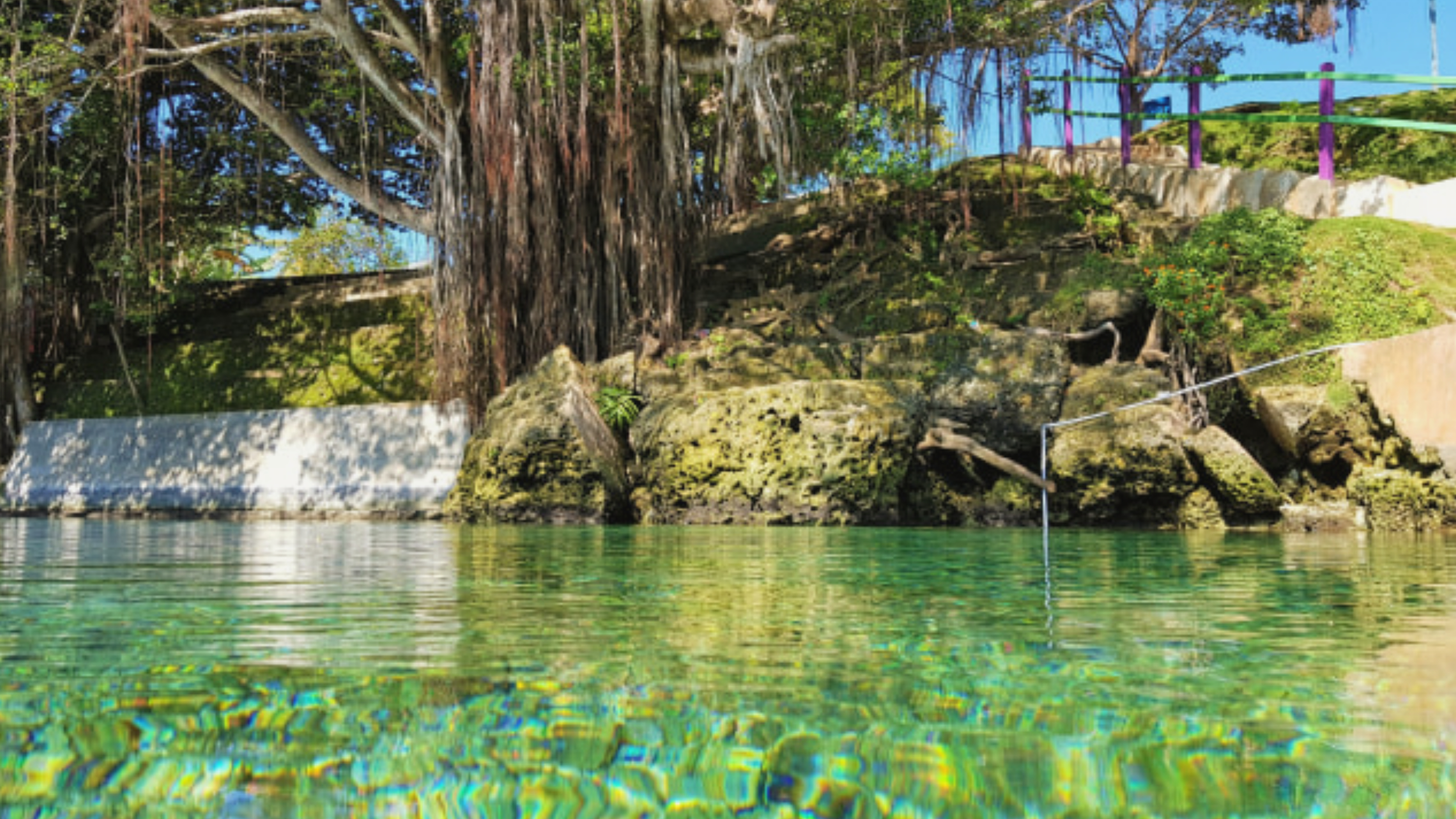 Located at desa labone